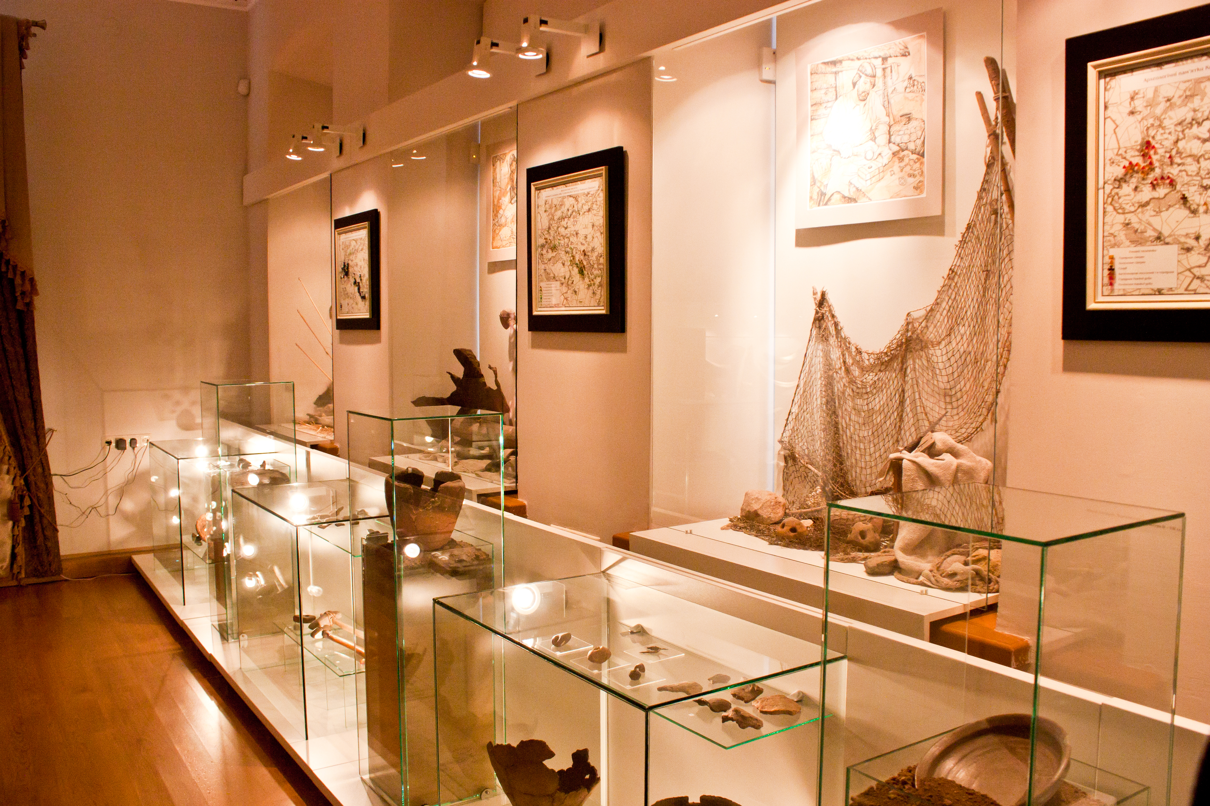 Exhibition in the History of Baturyn Museum (building of the Resurrection Parish School)